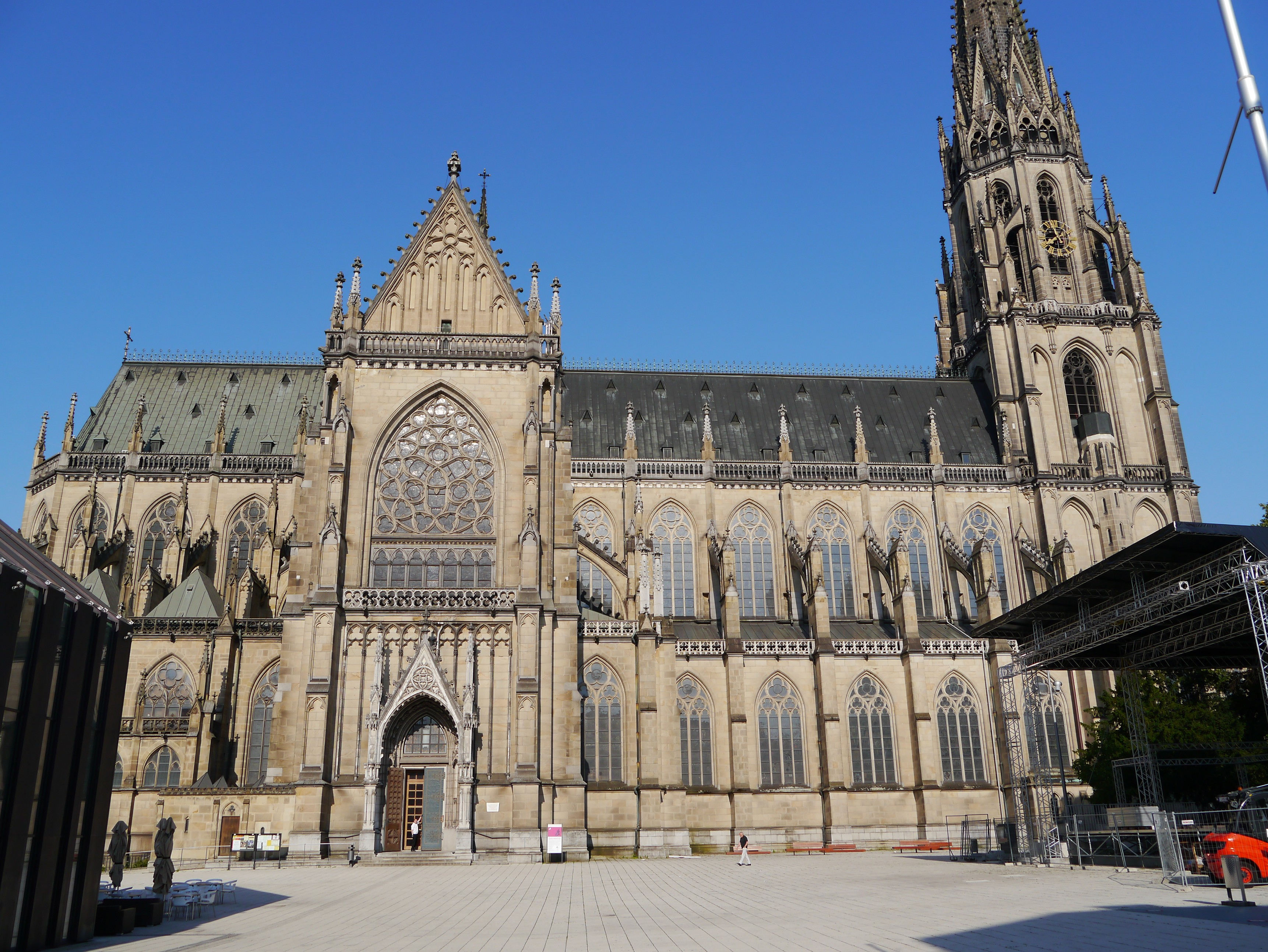 New Cathedral, Linz, Upper Austria